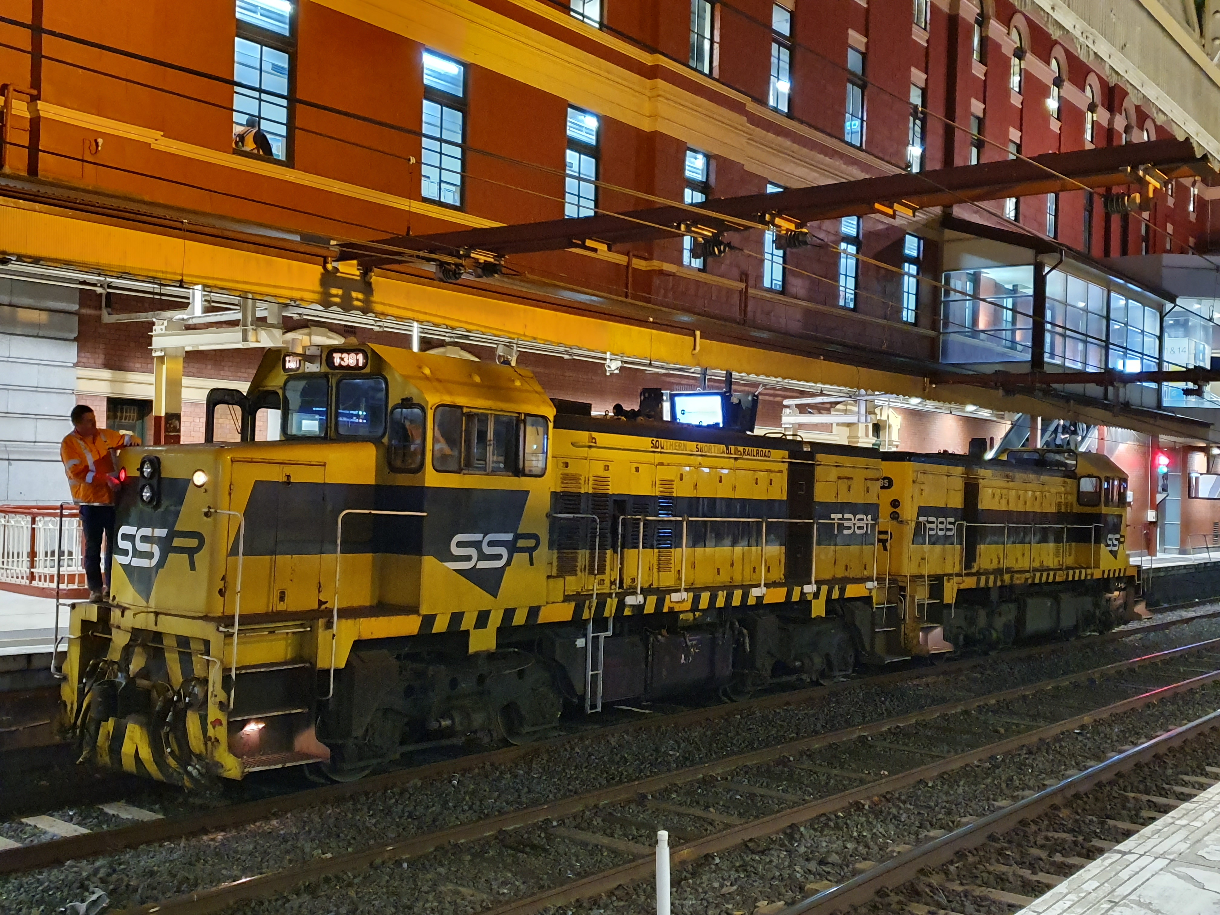 Photo of Southern Shorthaul Railroad T Class T381 taken at Flinders Street Station of Melbourne, Australia on 14 Sep 2019